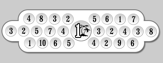 "Anniversary Game" Random Point Value Board, used in the final general knowledge round.